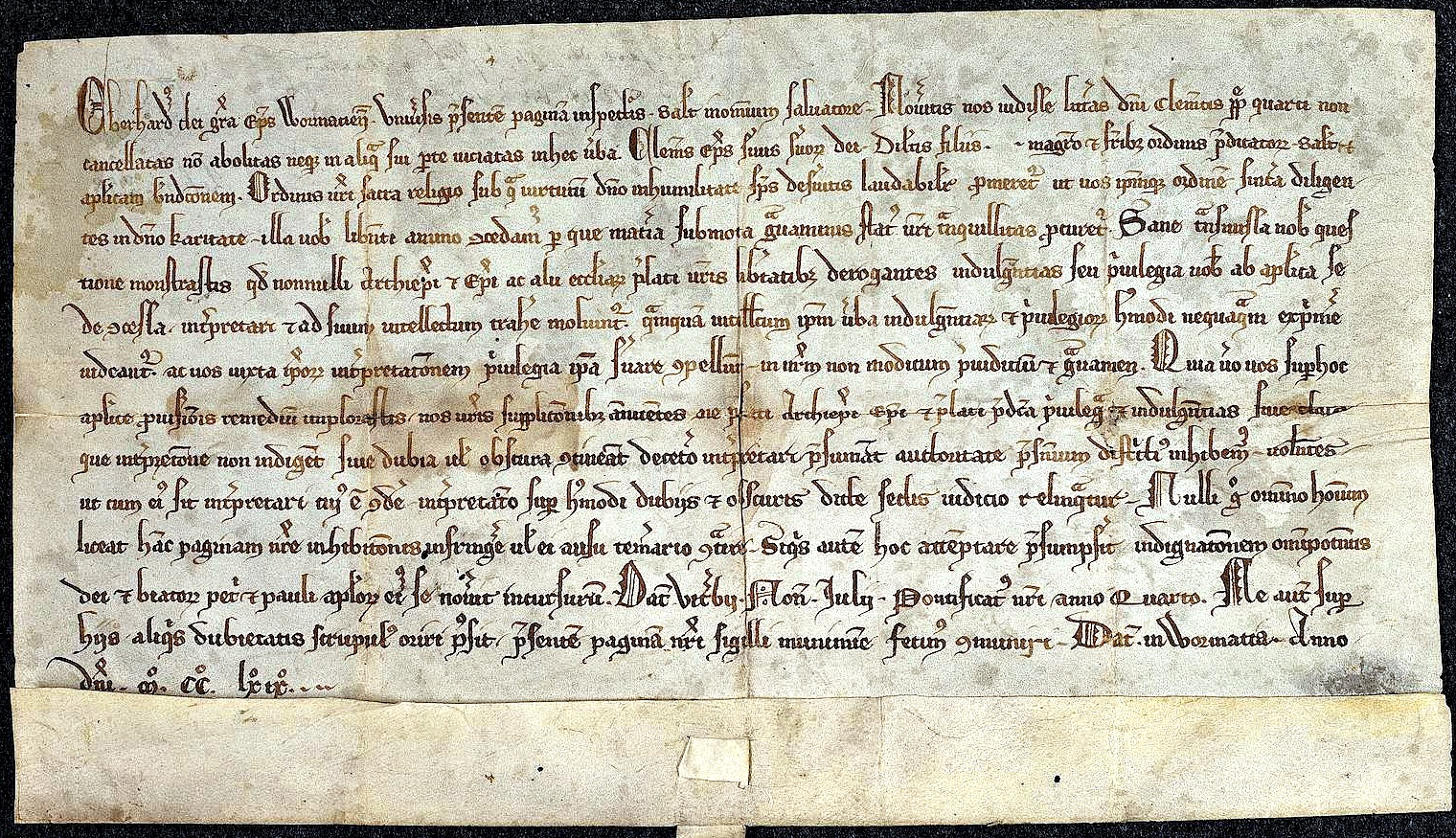 Urkunde des Bischofs Eberhard I. von Worms (+ 1277) aus dem Jahre 1268